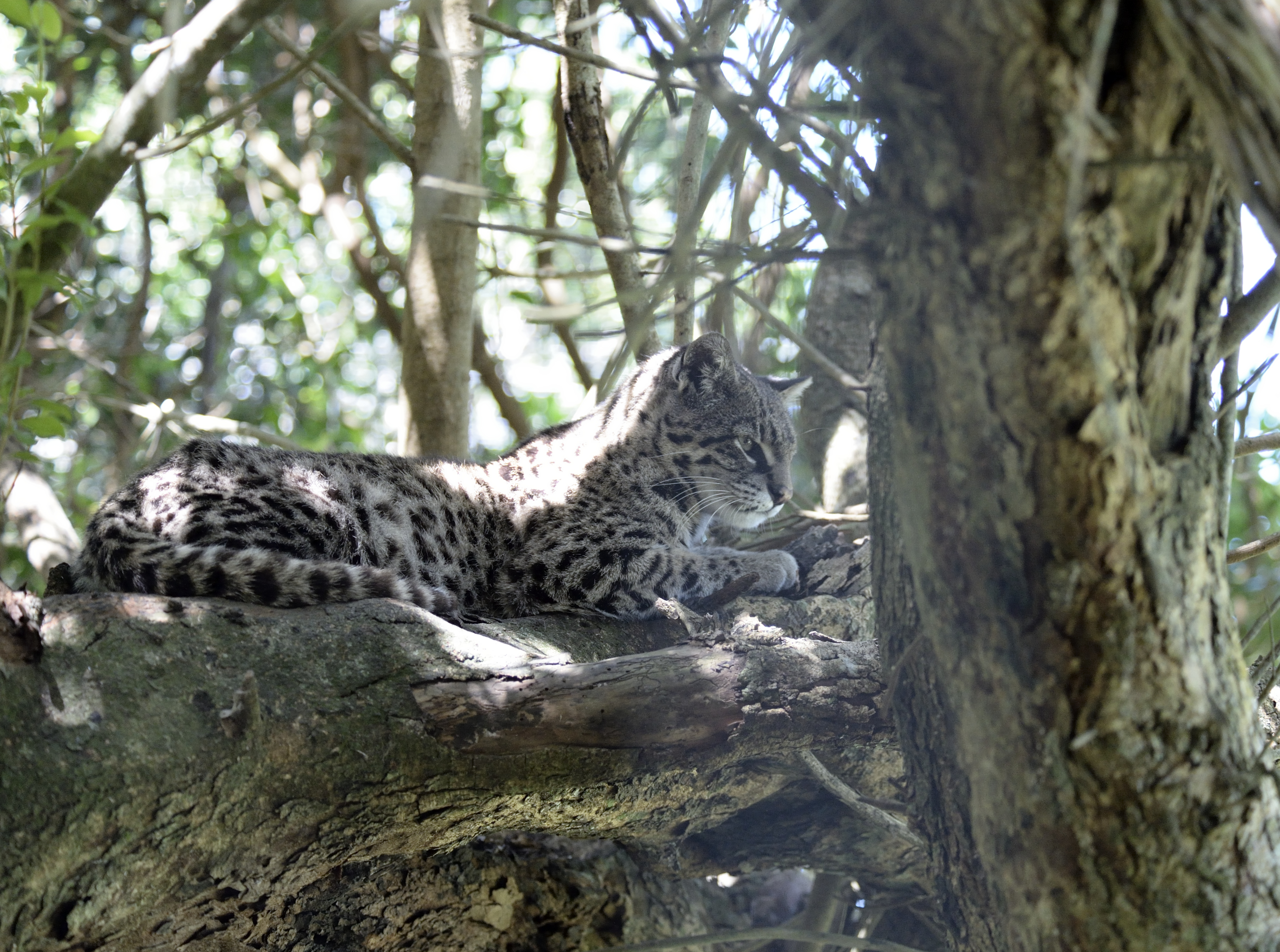 Leopardus geoffroyi taken in the Department of Rocha, Uruguay